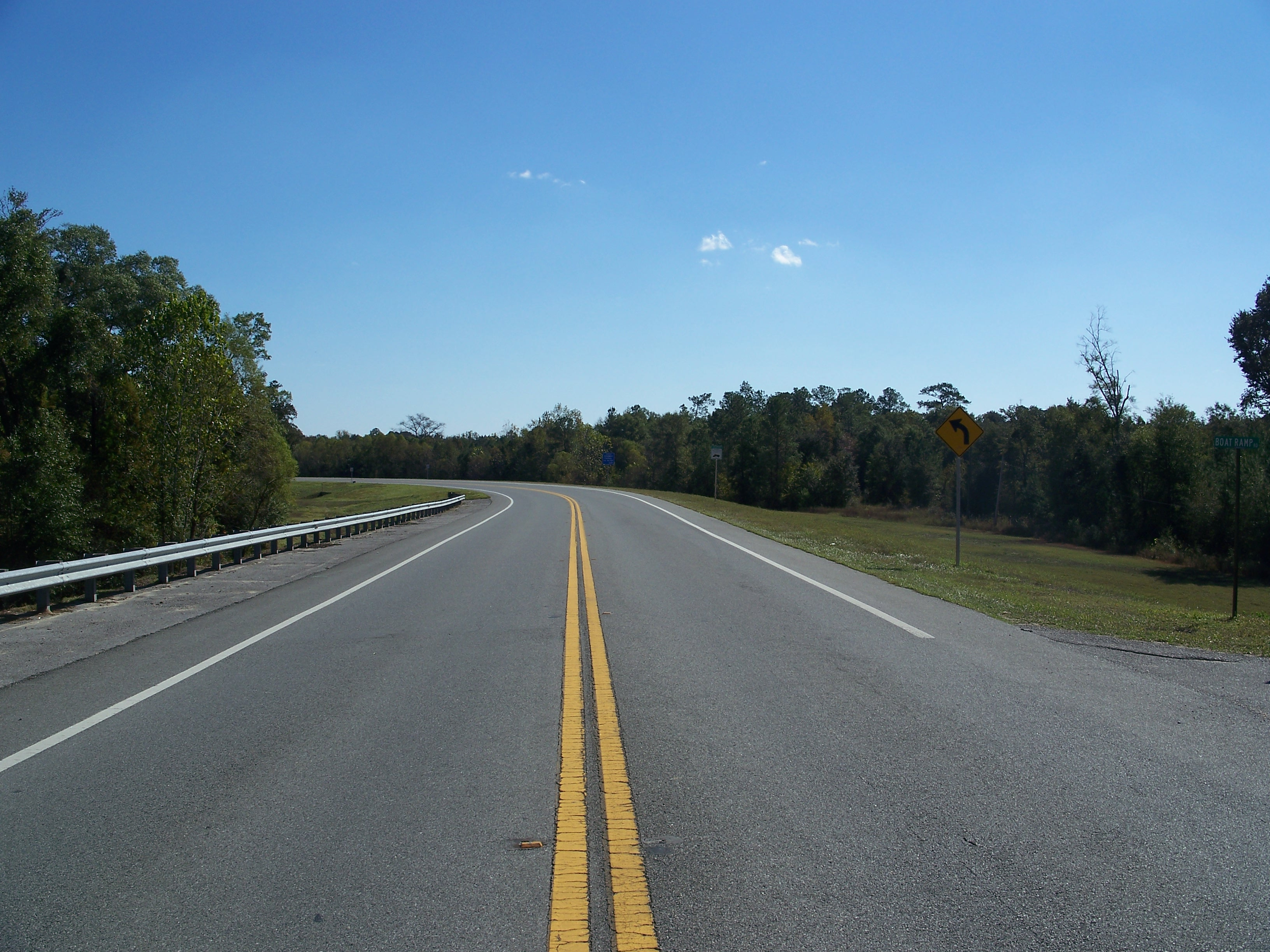 US 90, near the Choctawhatchee River, between Caryville, Florida and Westville, Florida, looking east